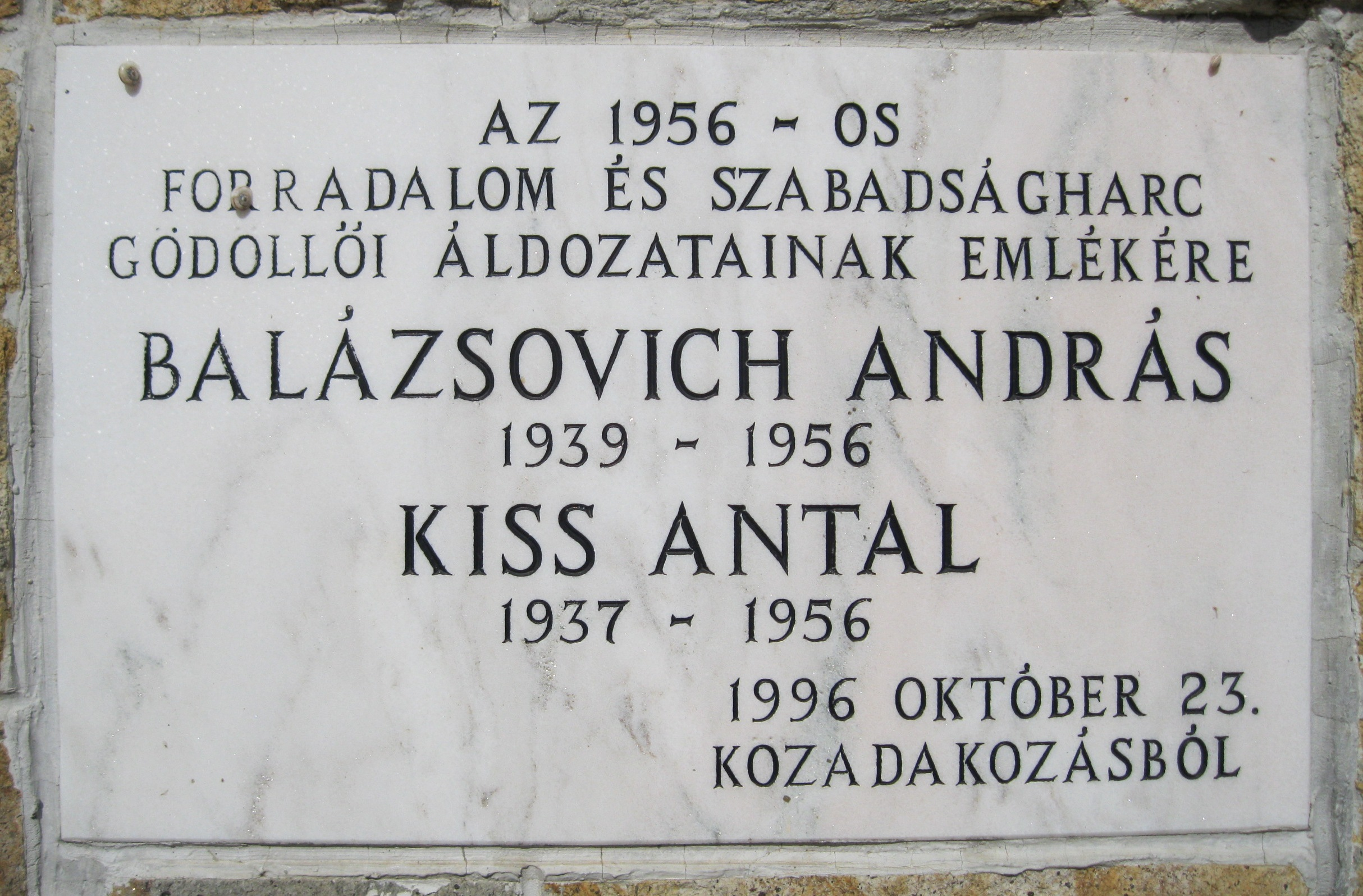 Commemorative plaque of András Balázsovich and Antal Kiss in Gödöllő, Szabadság Street No 9.